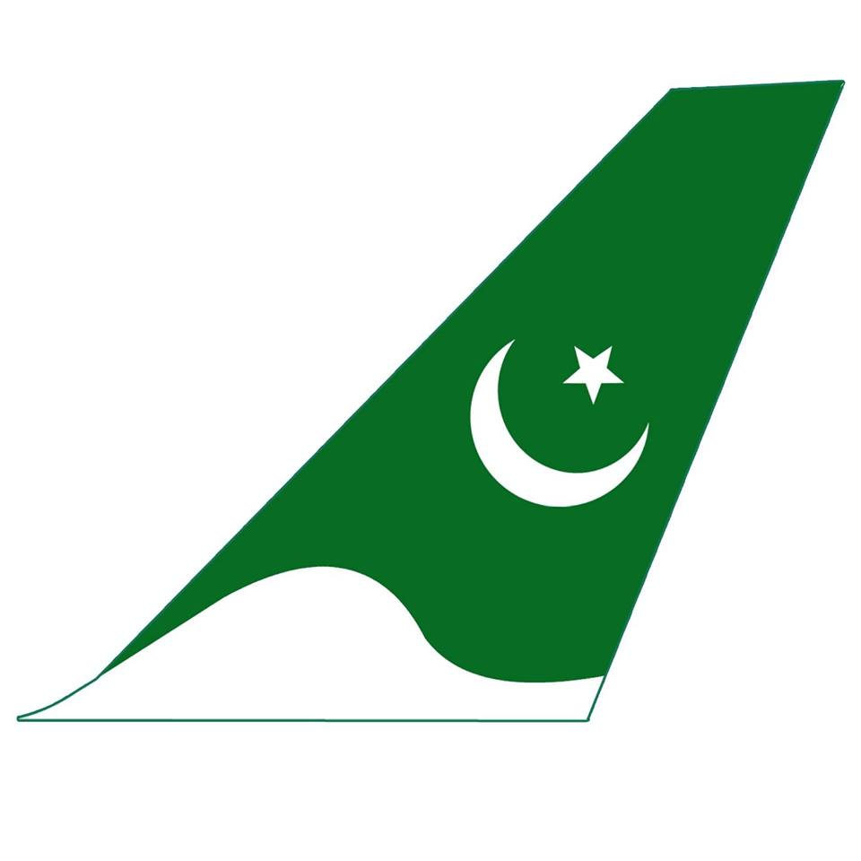 PIA Tail